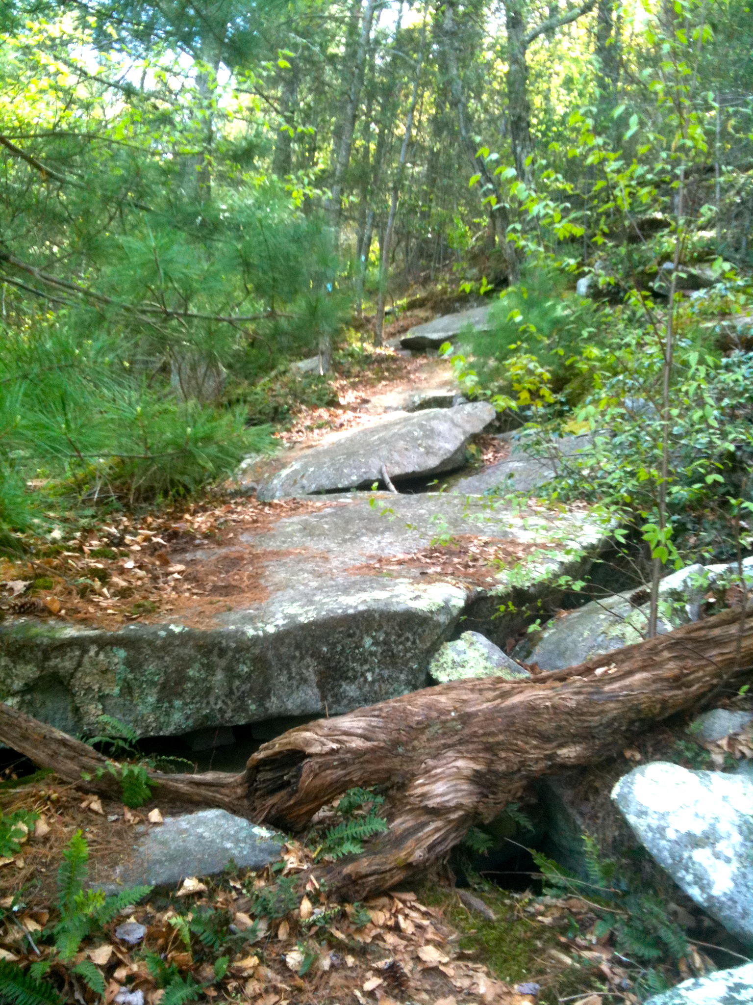 Housatonic Range Blue-Blazed Trail. Blue-Blazed CFPA linear foot path from Candlewood Mountain in New Milford and to Gaylordsville Cemetary in Gaylordsville. Housatonic Range CFPA Blue-Blazed Trail in New Milford. Housatonic Range Trail (AKA Candlewood Mtn Trail). "Kelly's Slide" on side trail.